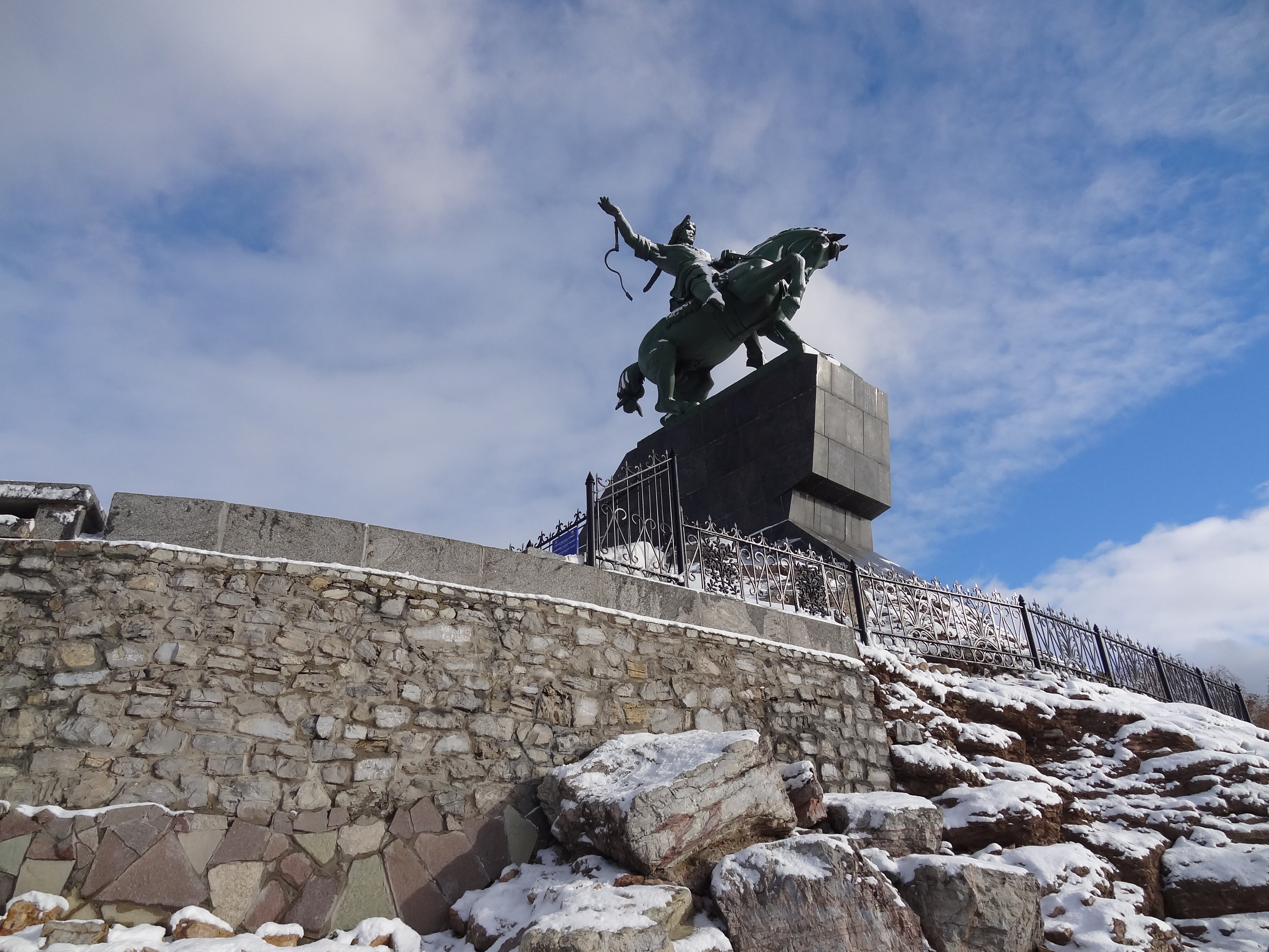 Ufa, Republic of Bashkortostan, Russia